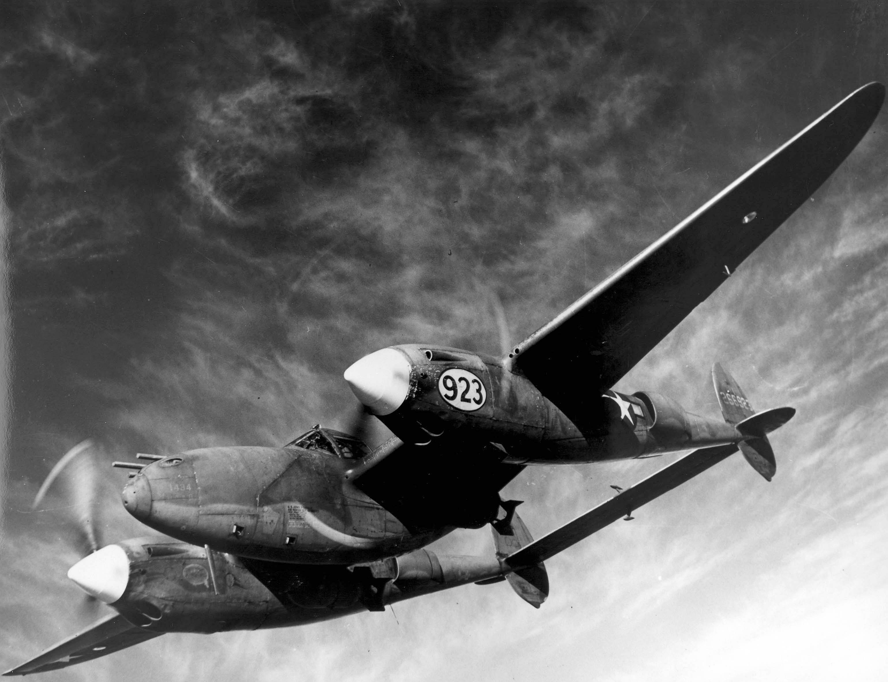 P-38 Orlando, Fla. - Barely visible beneath the wings of a Lockhead P-38 Lighting are the deadly bombs with which this multi-purpose plane can blast enemy troops, ships and gun emplacements. As shown in recent demonstrations at the AAF Tactical Center, Orlando, Fla., the Lockhead P-38, now being used as a fighter-bomber, is capable of carrying bomb pay loads up to 2,000 pounds, thus affording the Allies another potent weapon for use against Germany and Japan in coming offensive.